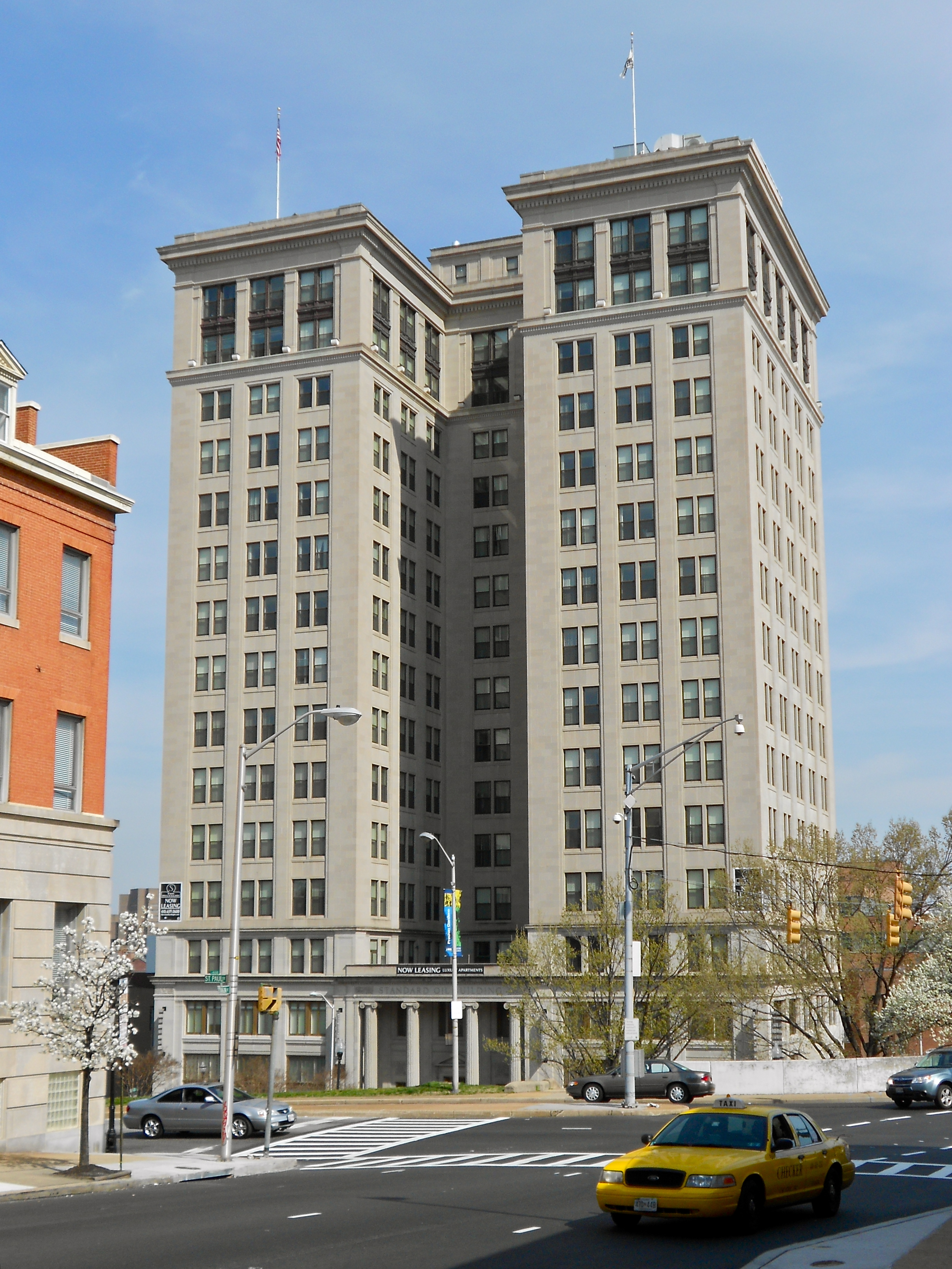 Standard Oil Building on the NRHP since December 1, 2000. At 501 St. Paul St. in central Baltimore, Maryland.